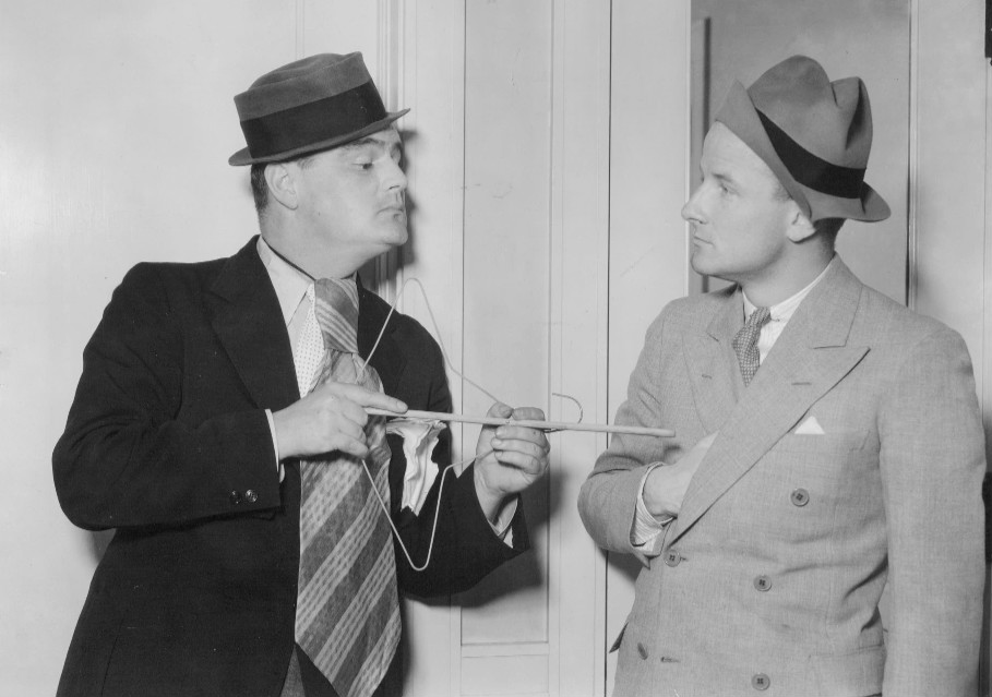 Publicity photo of Wilbur Budd Hulick (Budd) and Frederick Chase Taylor (Stoopnagle) of the comedy team Stoopnagle & Budd.